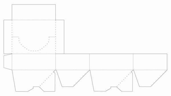 Box whose bottom consists of four flaps that can be joined together by pasting two points. The packer receives it folded and glued to mount just has to press on the vertices.